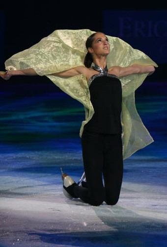 Didier at the 2008 TEB.